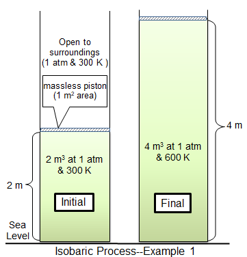 This picture has been created using open access software.